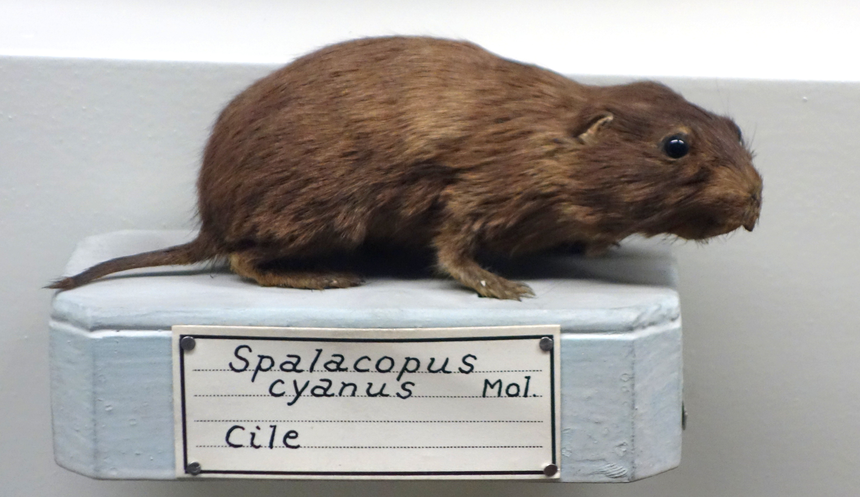 Exhibit in the Museo Civico di Storia Naturale di Genova, Via Brigata Liguria, 9, 16121, Genoa, Italy.